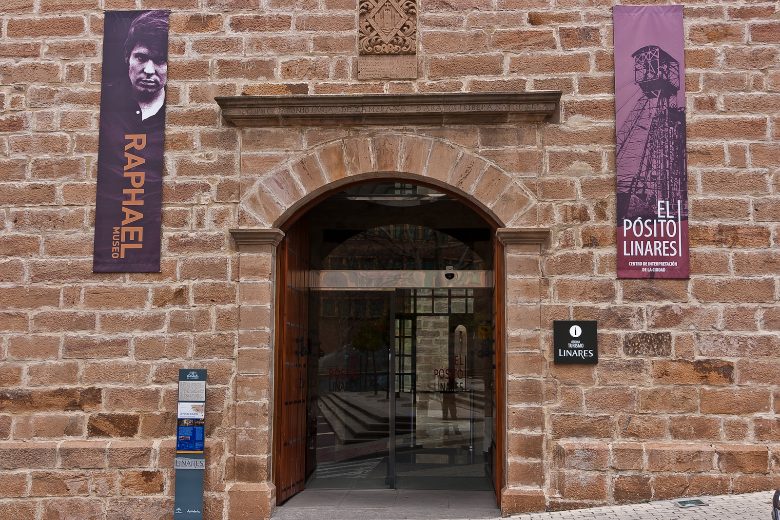 Entrance of Antiguo Posito in Linares (Spain)